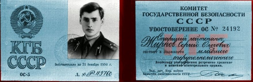 Identity cards employees of the KGB USSR. Expires December 31, 1990